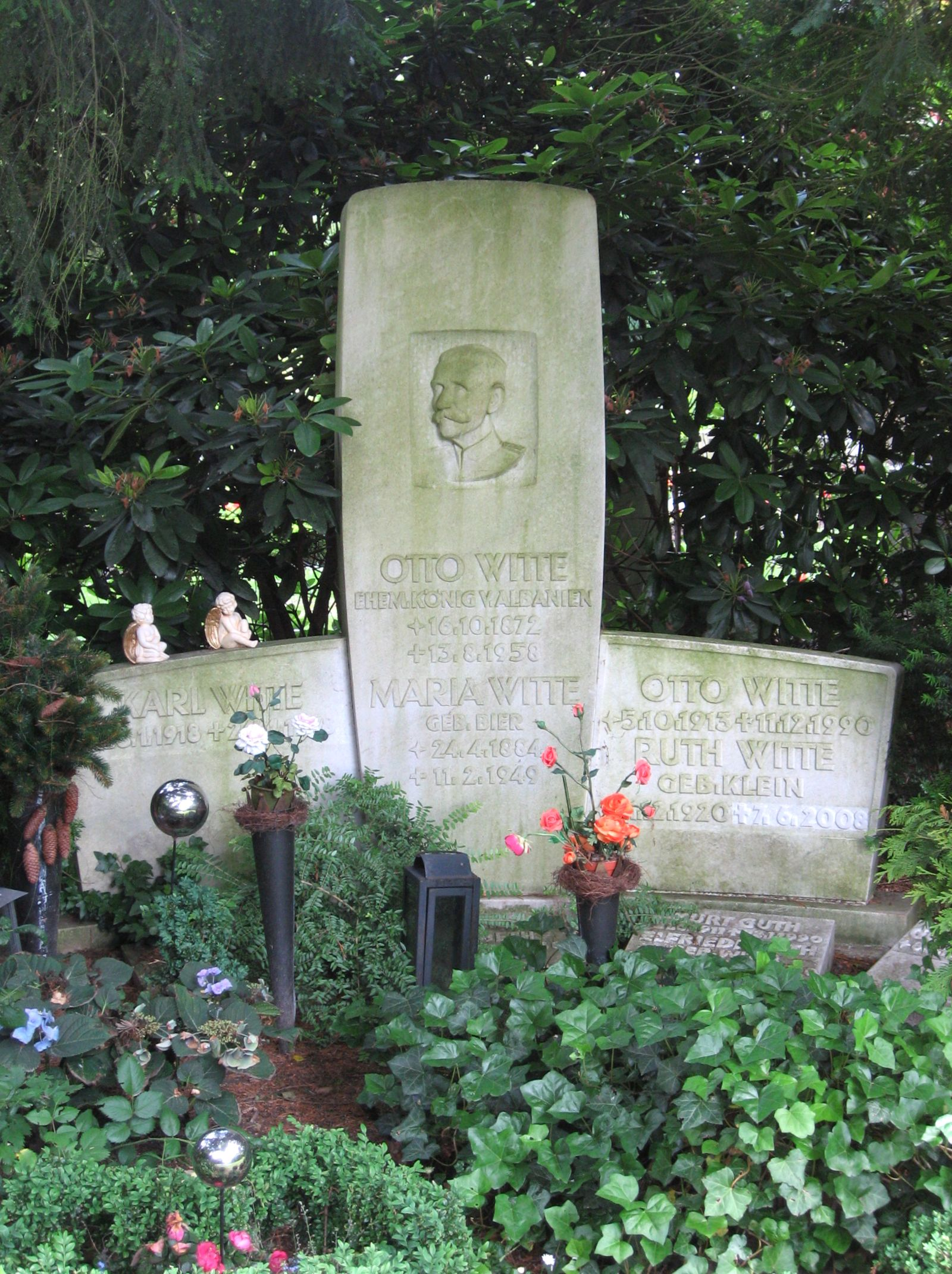 Gravestone for Otto Witte (16.10.1872—13.8.1958) on the Ohlsdorf Cemetery, Parzelle Q 9, 430–433 (Hamburg, Germany). The grave monument was created by German sculptor Egon Lissow (1926–1990) in 1958.